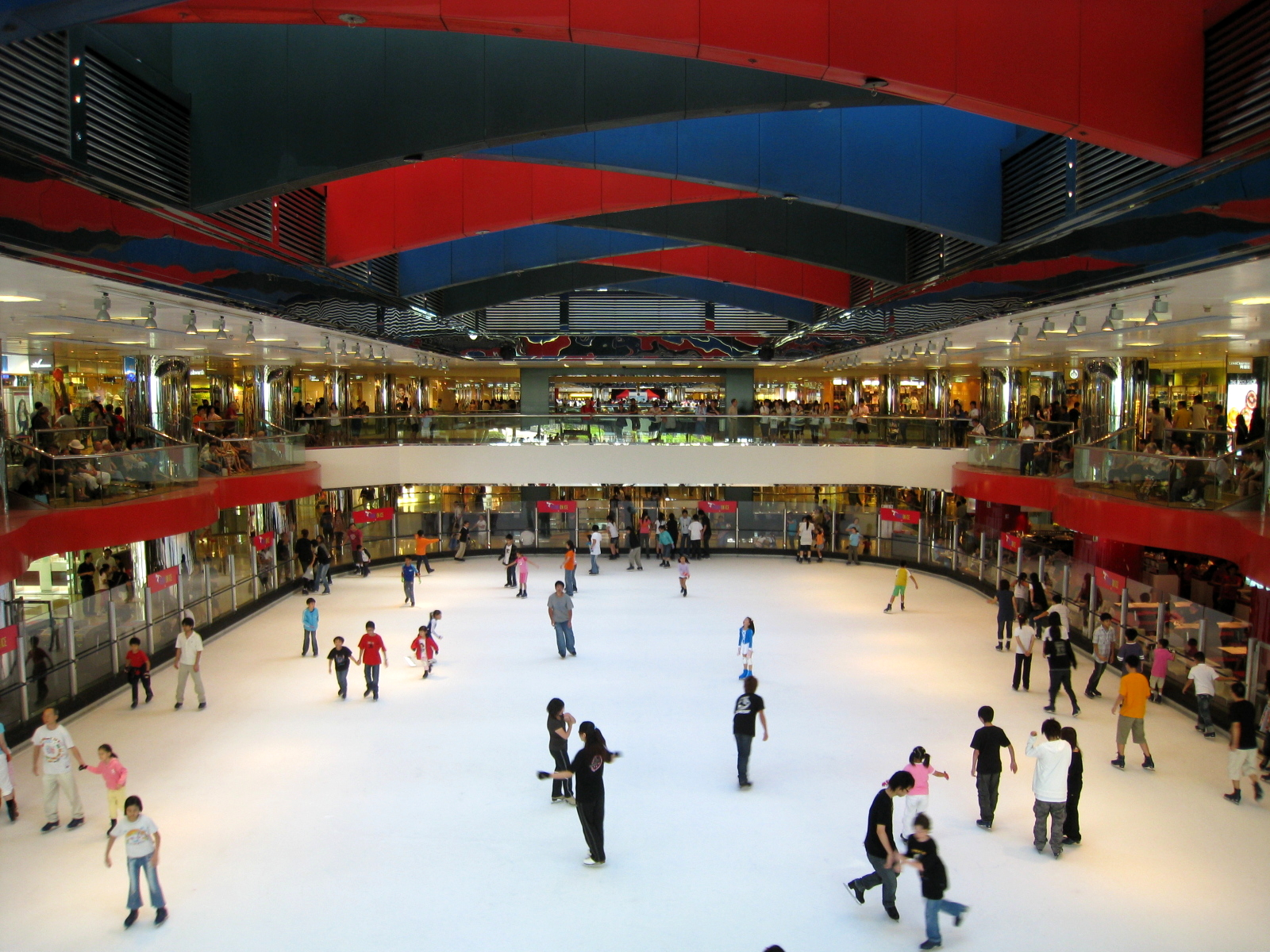 HK Cityplaza Ice Palace 太古城中心冰上皇宮